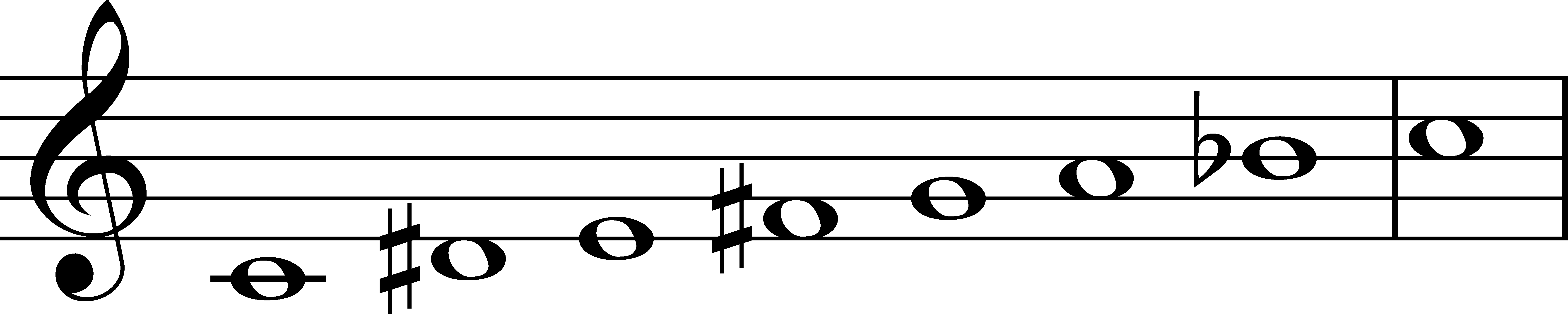 Hungarian major scale on C